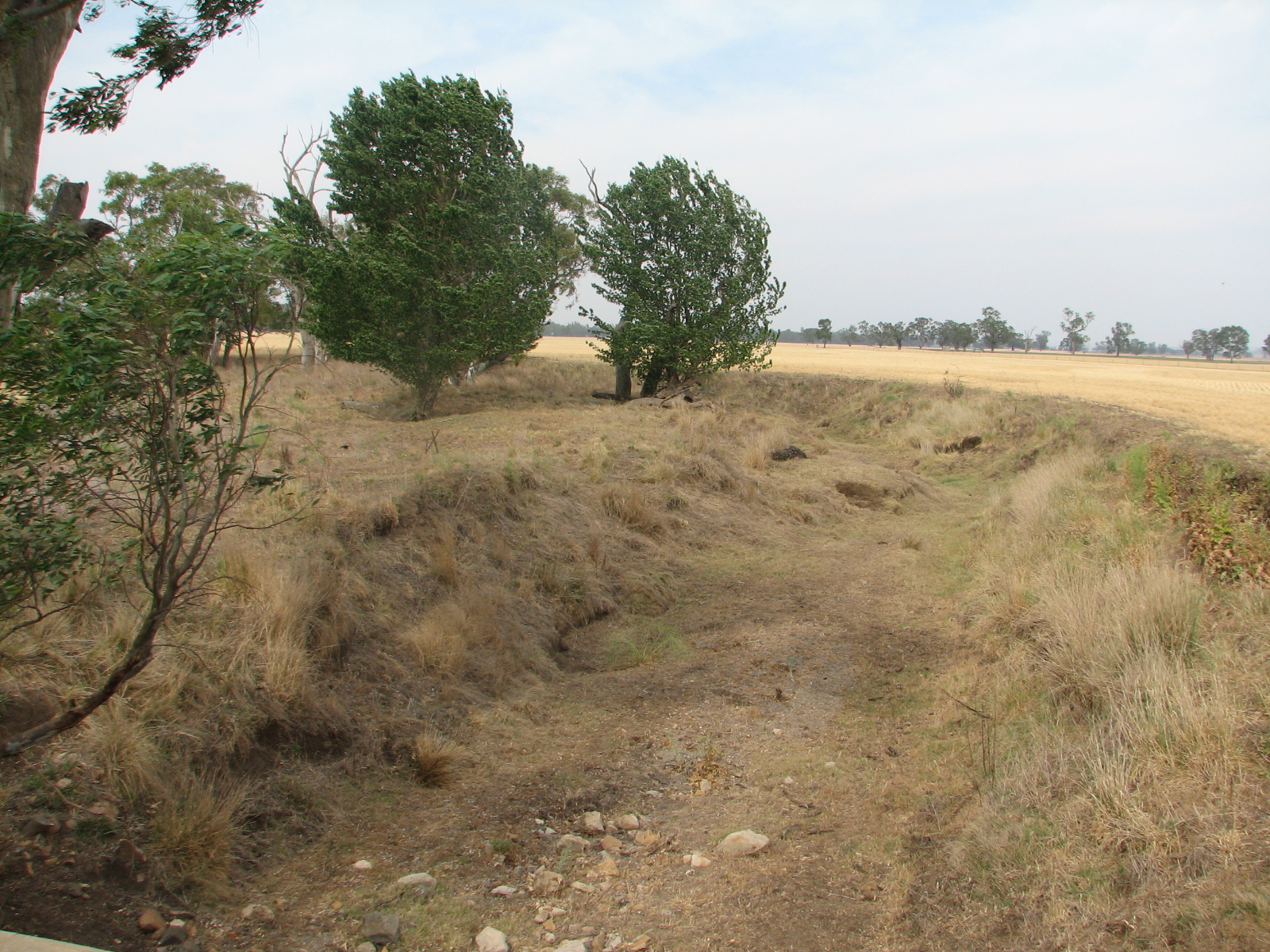 Coolaburragundy River, at Lawson's Crossing near Leadville NSW, November 2009. This cross is about 1 km upstream from the location where the Coolaburragundy River flows into the Talbragar River.